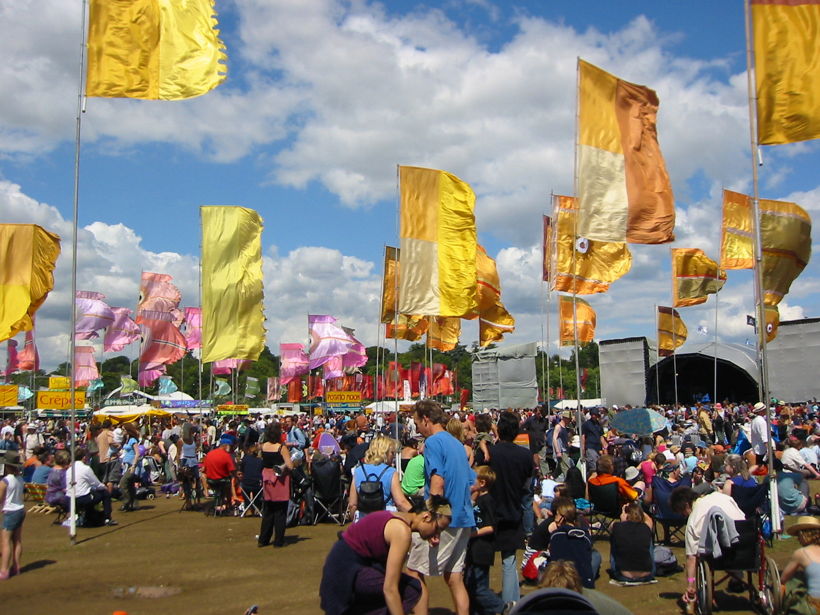 Untitled-23